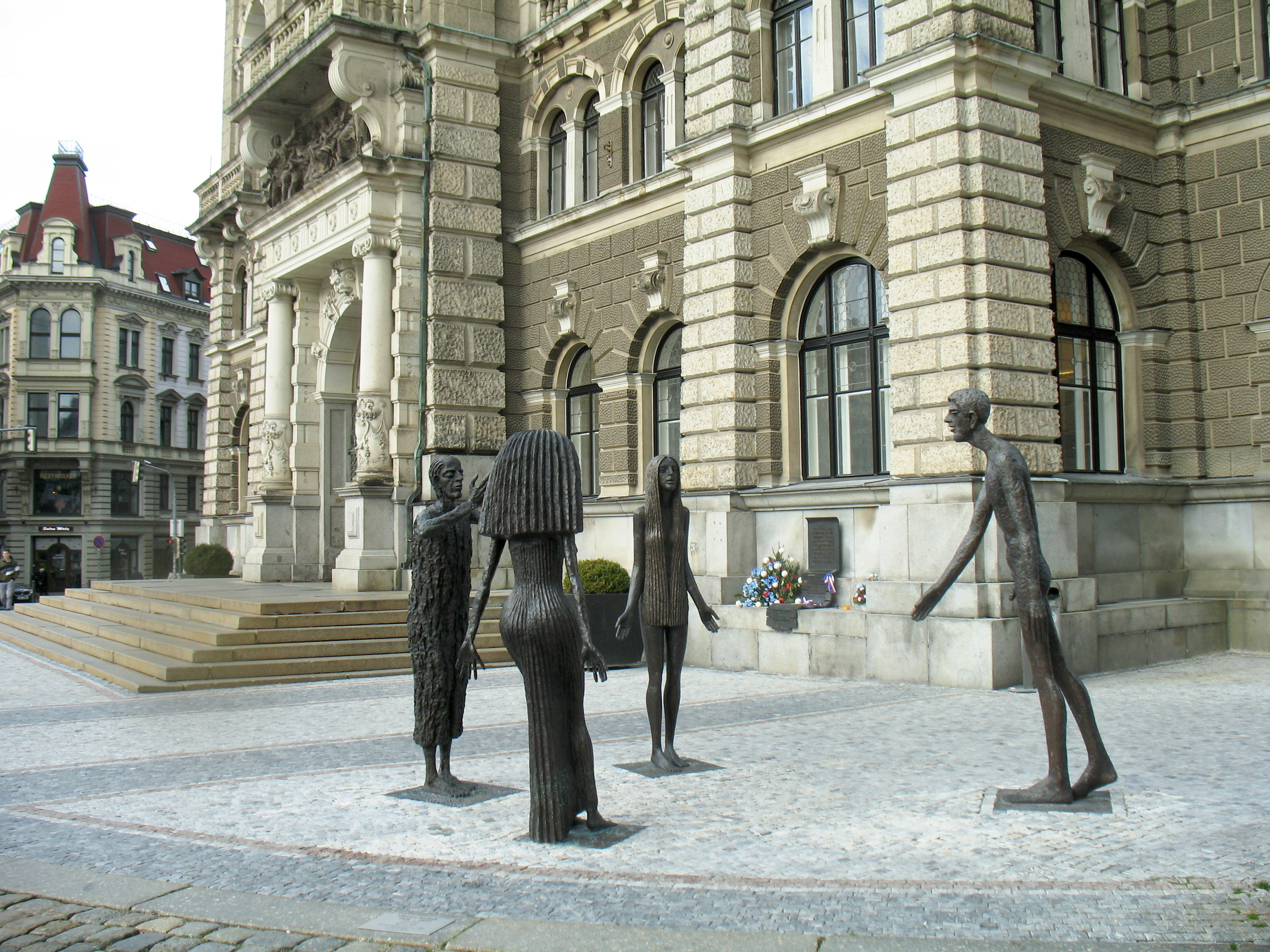 Statues by Olbram Zoubek in Liberec, 2019, Czech Republic